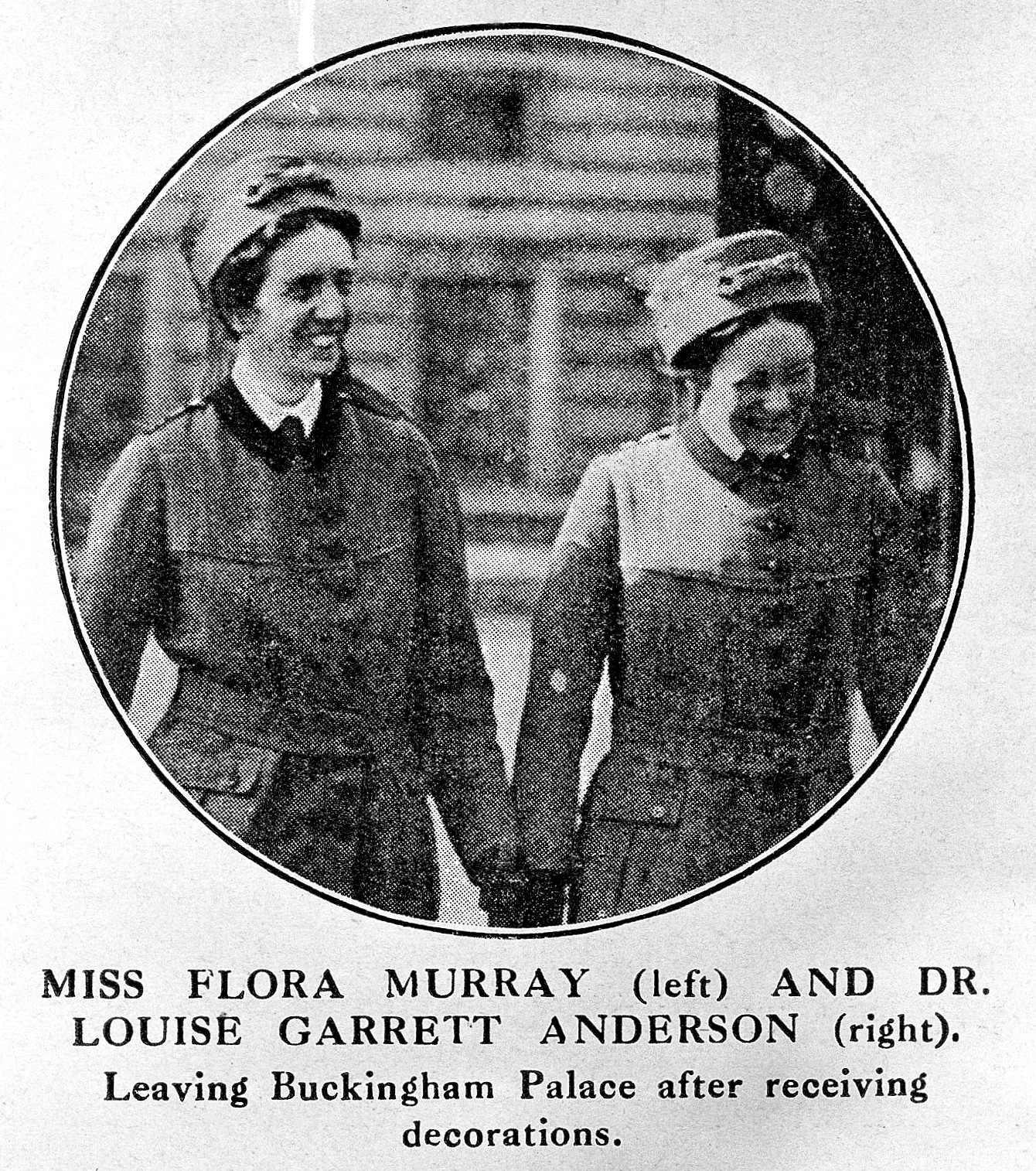 Women's Work (III): War Service. Miss Flora Murray (left) and Dr. Louise Garrett Anderson (right) leaving Buckingham Palace after receiving decorations. General Collections Keywords: WORLD WAR ONE; Flora Murray; Louise Garrett Anderson